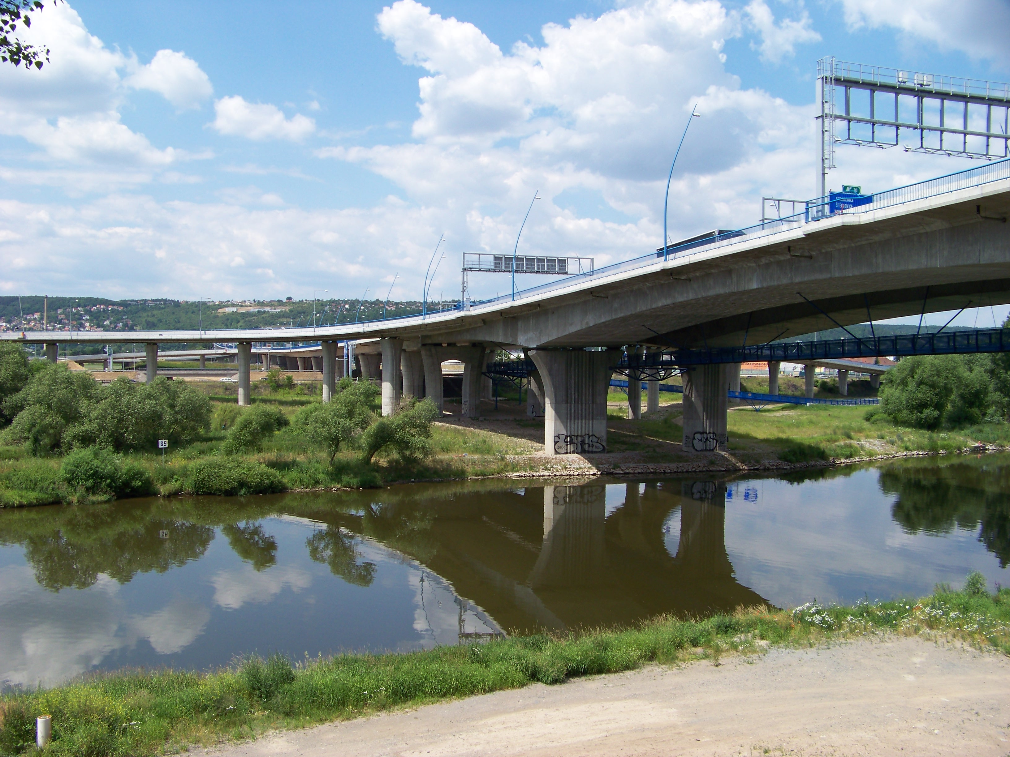 Prague-Komořany and Lahovice, Czech Republic. Radotínský most.